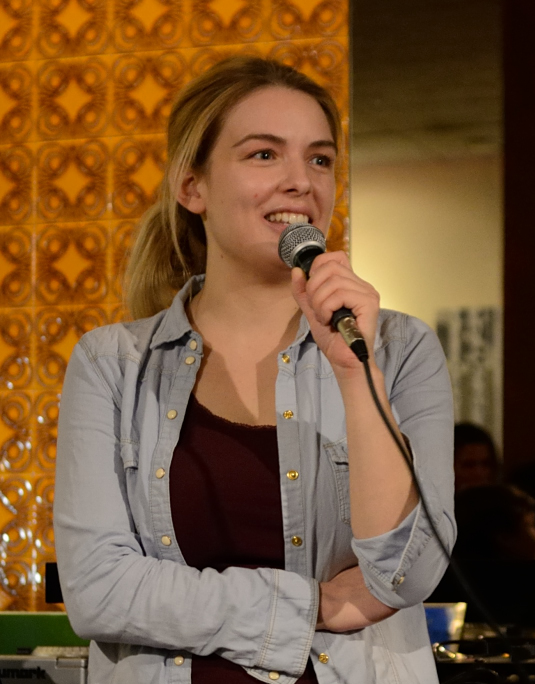 Mai Kivelä